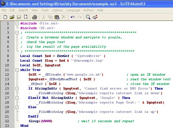 short AutoIT script showing basic syntax, loops, file handling and browser window checking